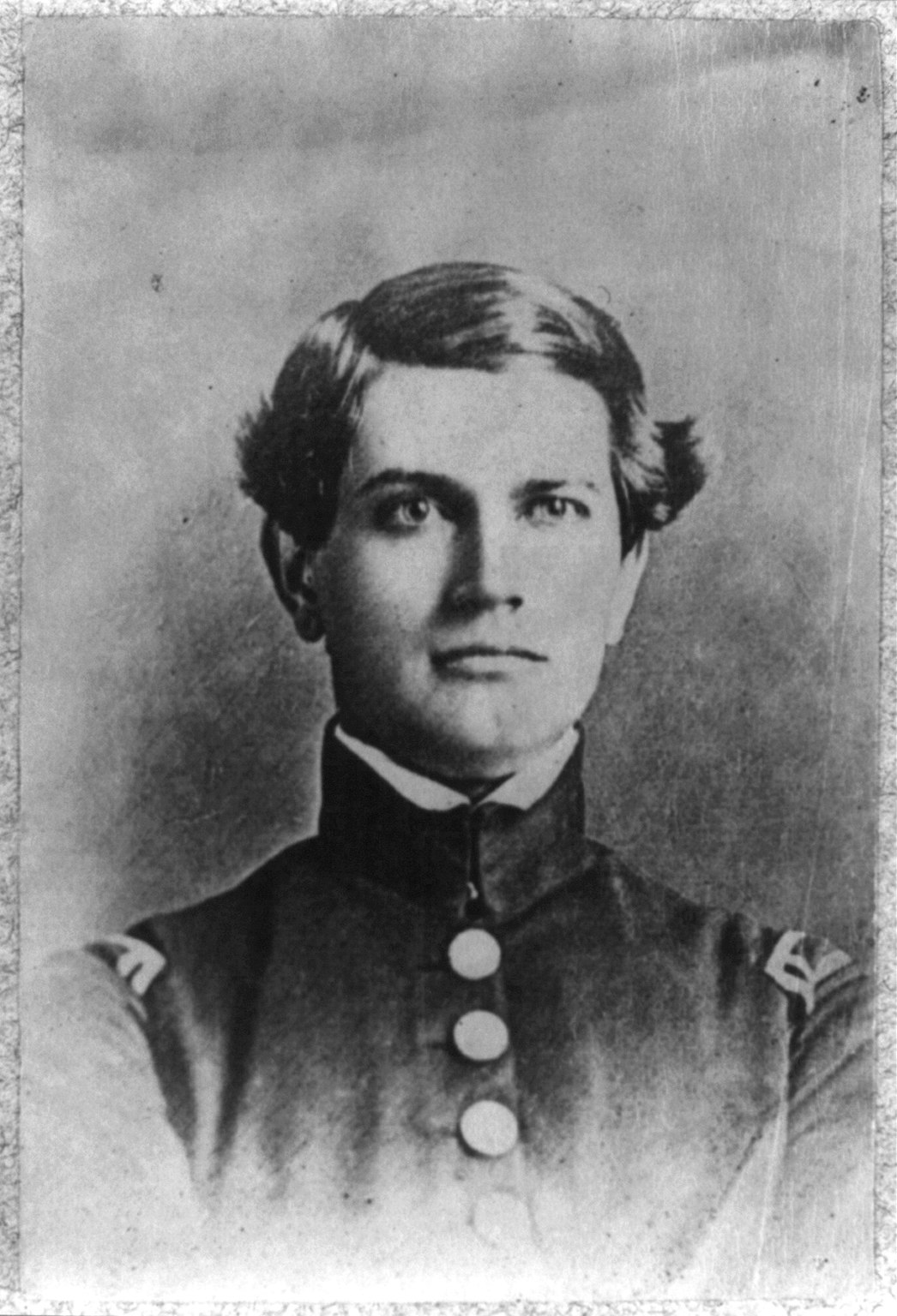 Title: James Cantey, 1818-1874 Abstract: Head and shoulders, facing right; in uniform. CSA general. Physical description: 1 photographic print. Notes: Civil War Photograph Collection (Library of Congress).; Civil War Collection.; This record contains unverified data from caption card.